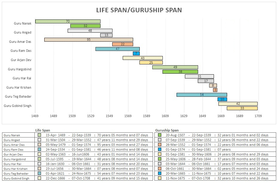 Graph showing Life Spans and Guruship Spans of Sikh Gurus